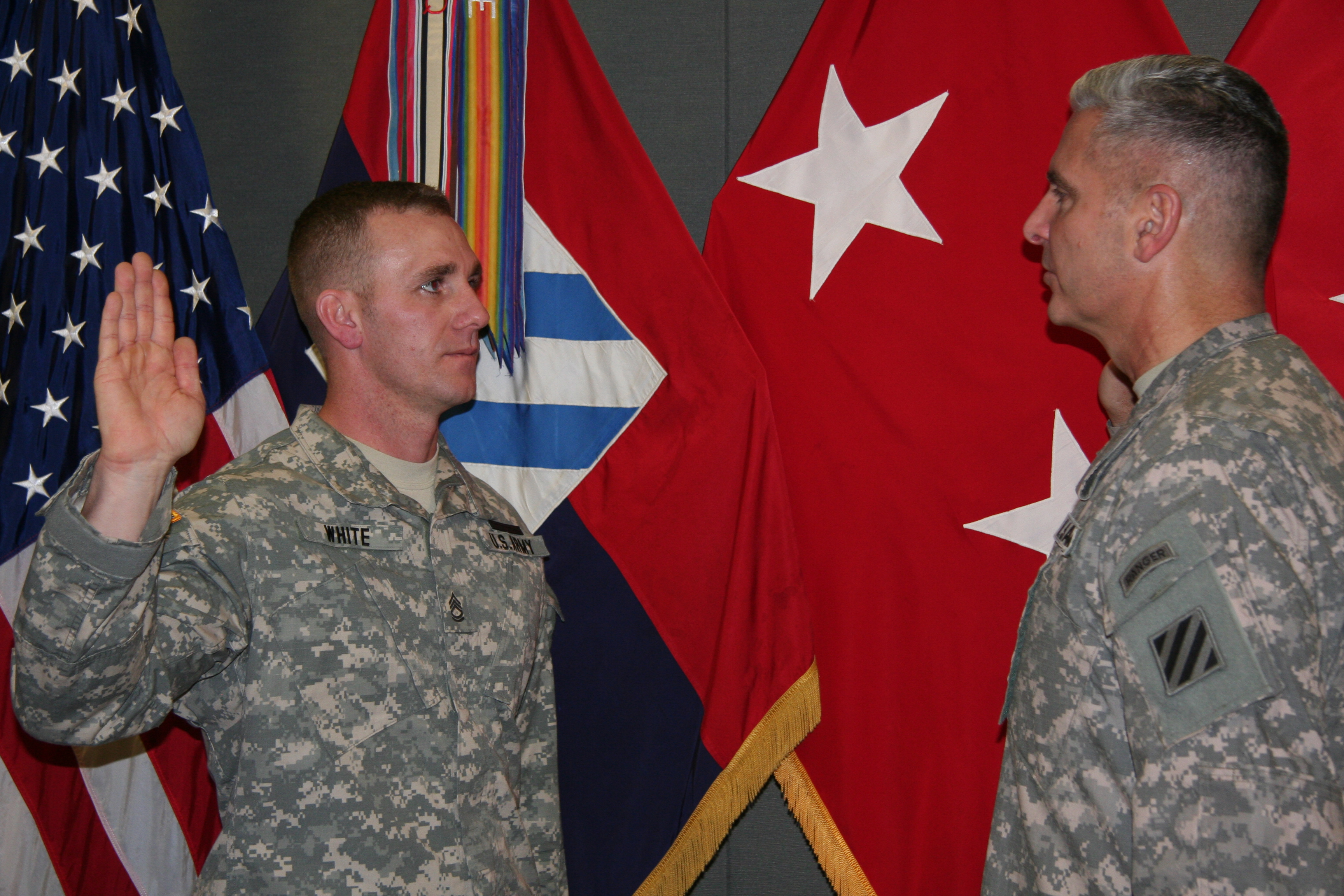 Major General Tony Cucolo, 3rd ID commander, reaffirms Sgt. 1st Class Garry White's Oath of Enlistment, following the noncommissioned officer's promotion to sergeant first class at the Keith L. Ware Command Control Facility on Fort Stewart, Oct. 1.